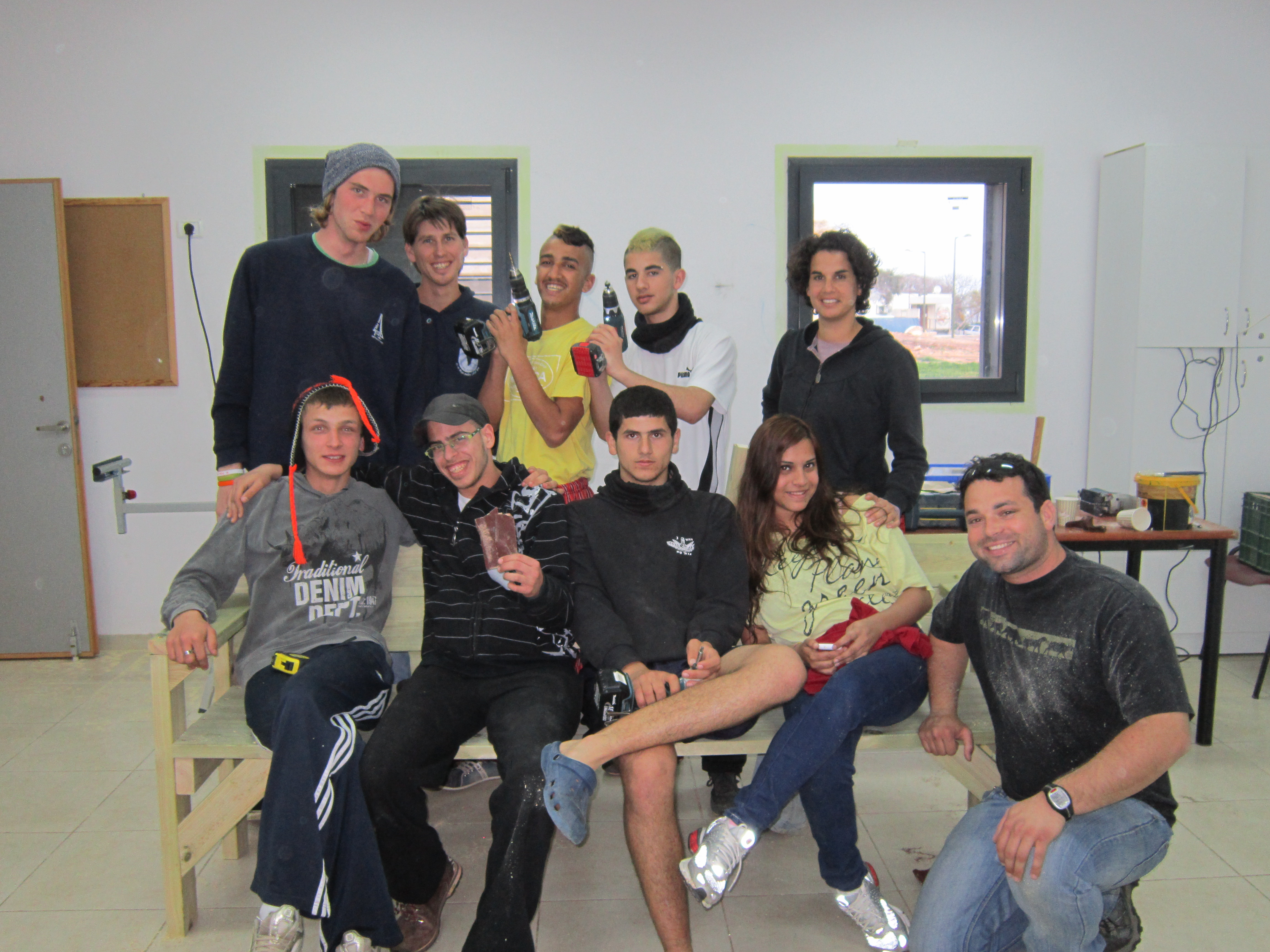 Youth and Youth leaders in the "Yiftach Mechina" for leadership